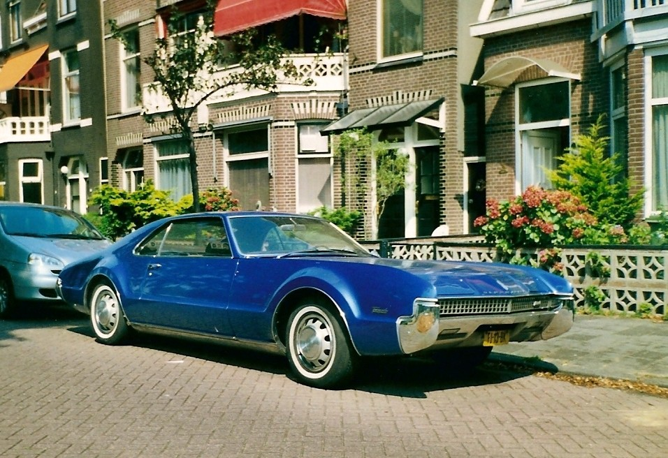 1967 Oldsmobile Toronado in Zaandam, Holland.